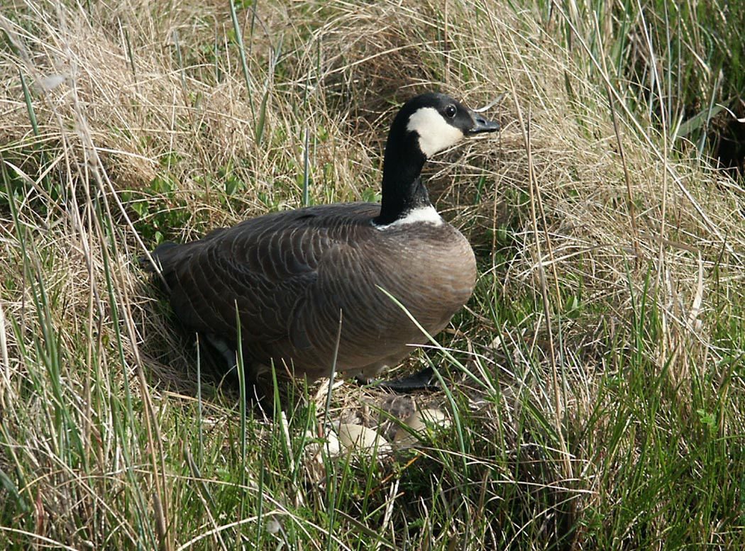 Nesting Small Cackling Goose (Branta hutchinsii minima) in Alaska